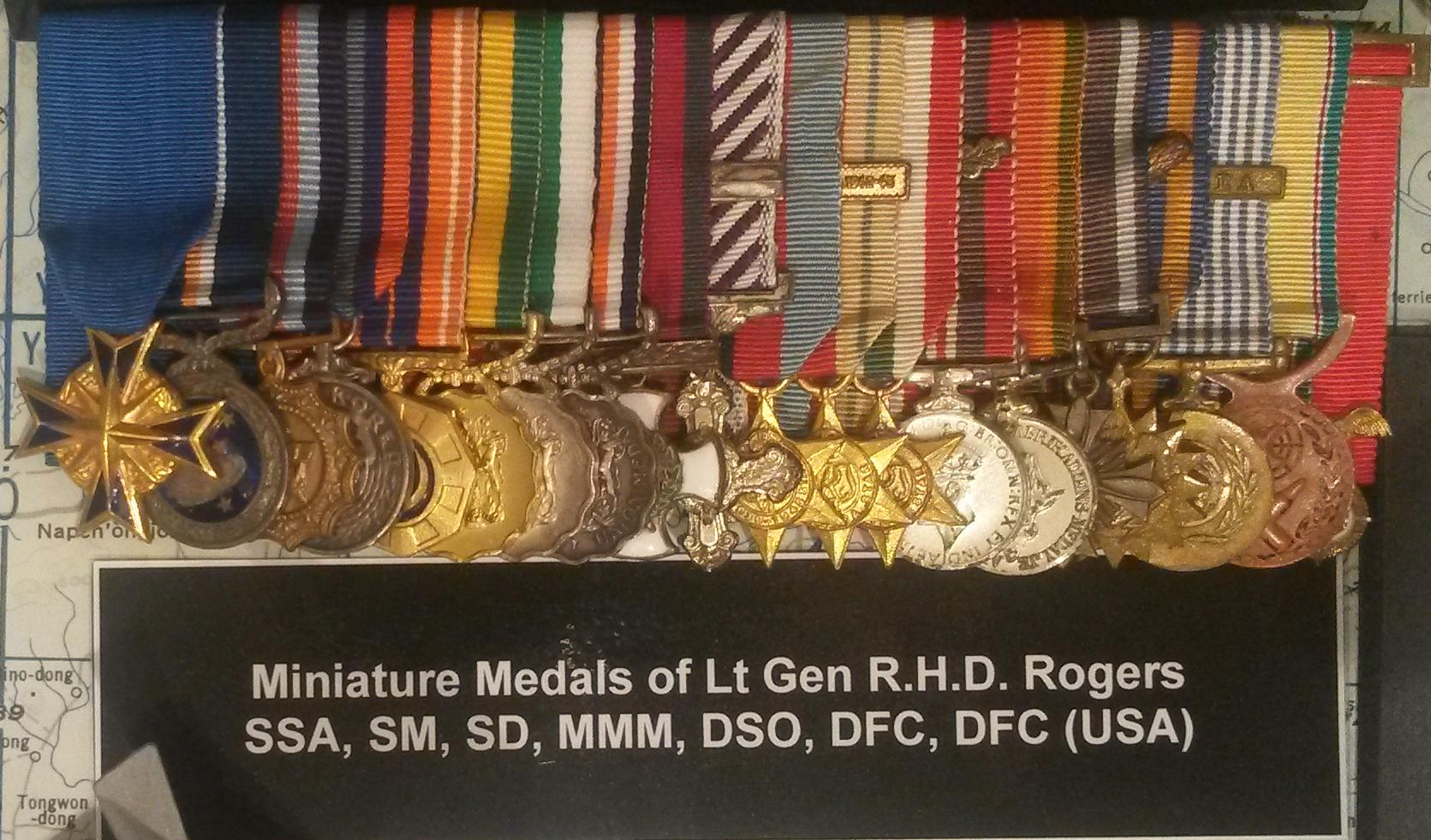 Miniature medals of Lieutenant General Bob Rogers at the SAAF Museum, AFB Ysterplaat. The inscription is in error on two counts: The SD would precede the SM. The SD is absent.